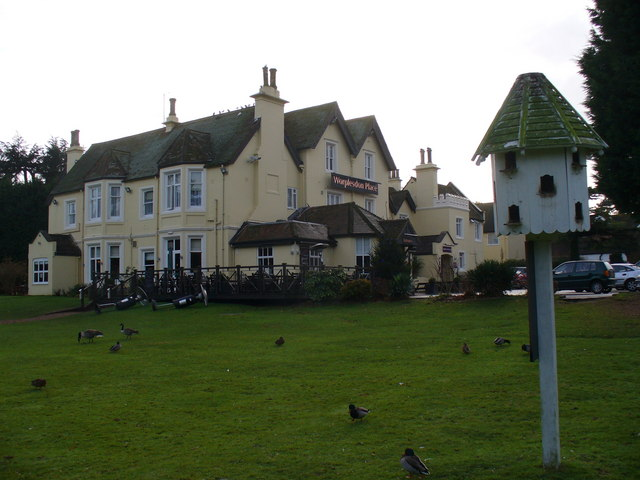 Worplesdon Place Lawn Beefeater chain restaurant set in a large old house. In front of the inn, a large lawn slopes down to an ornamental pond.